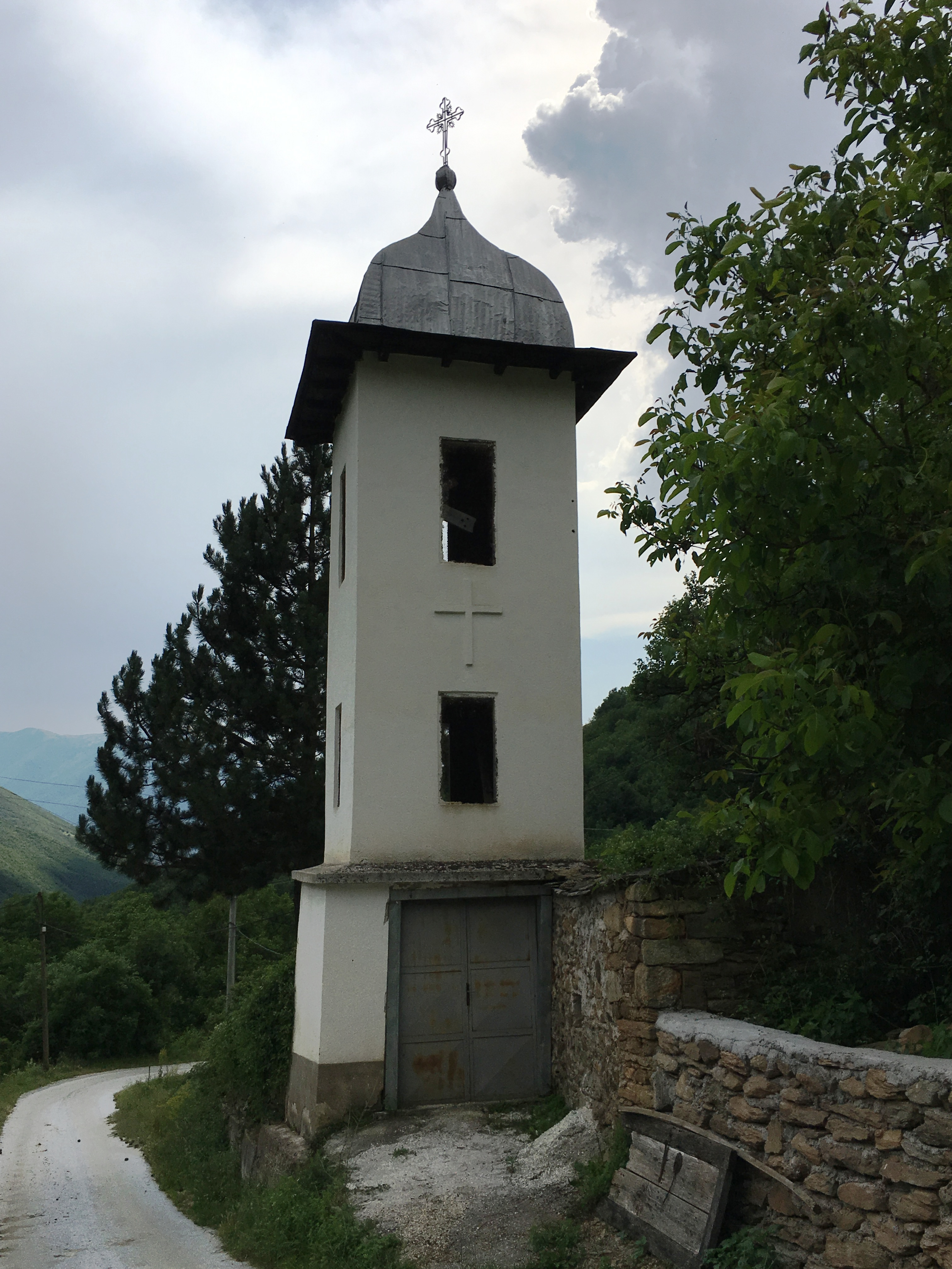 The bell tower of Church of the Presentation of the Theotokos in the village of Rusjaci